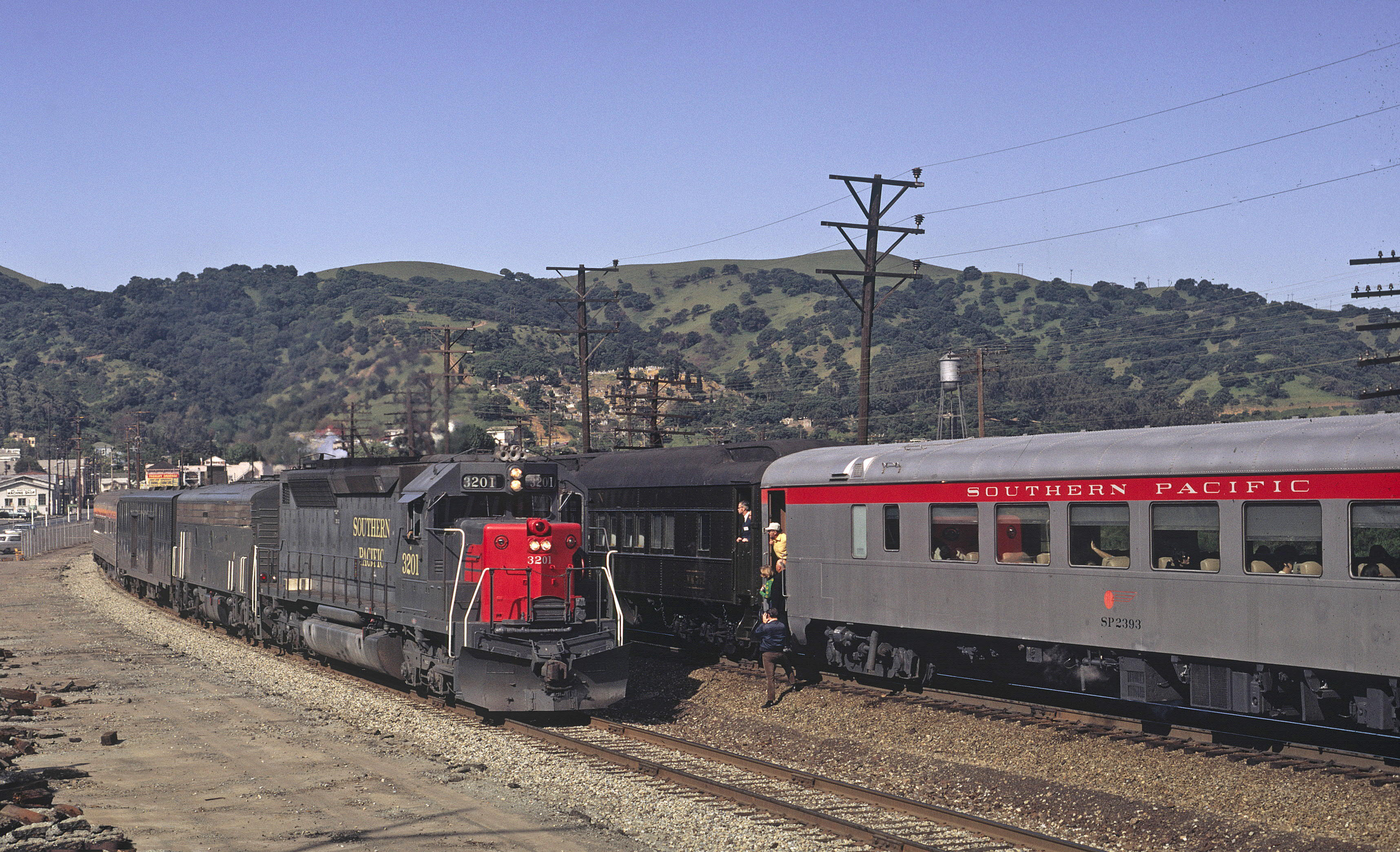 SP SDP45 #3201 with the San Joaquin Daylight at Martinez, The train on the right is the Truckee Limited, a PLA excursion which would be the last SP excursion train to operate before the coming of Amtrak. April 25th, 1971